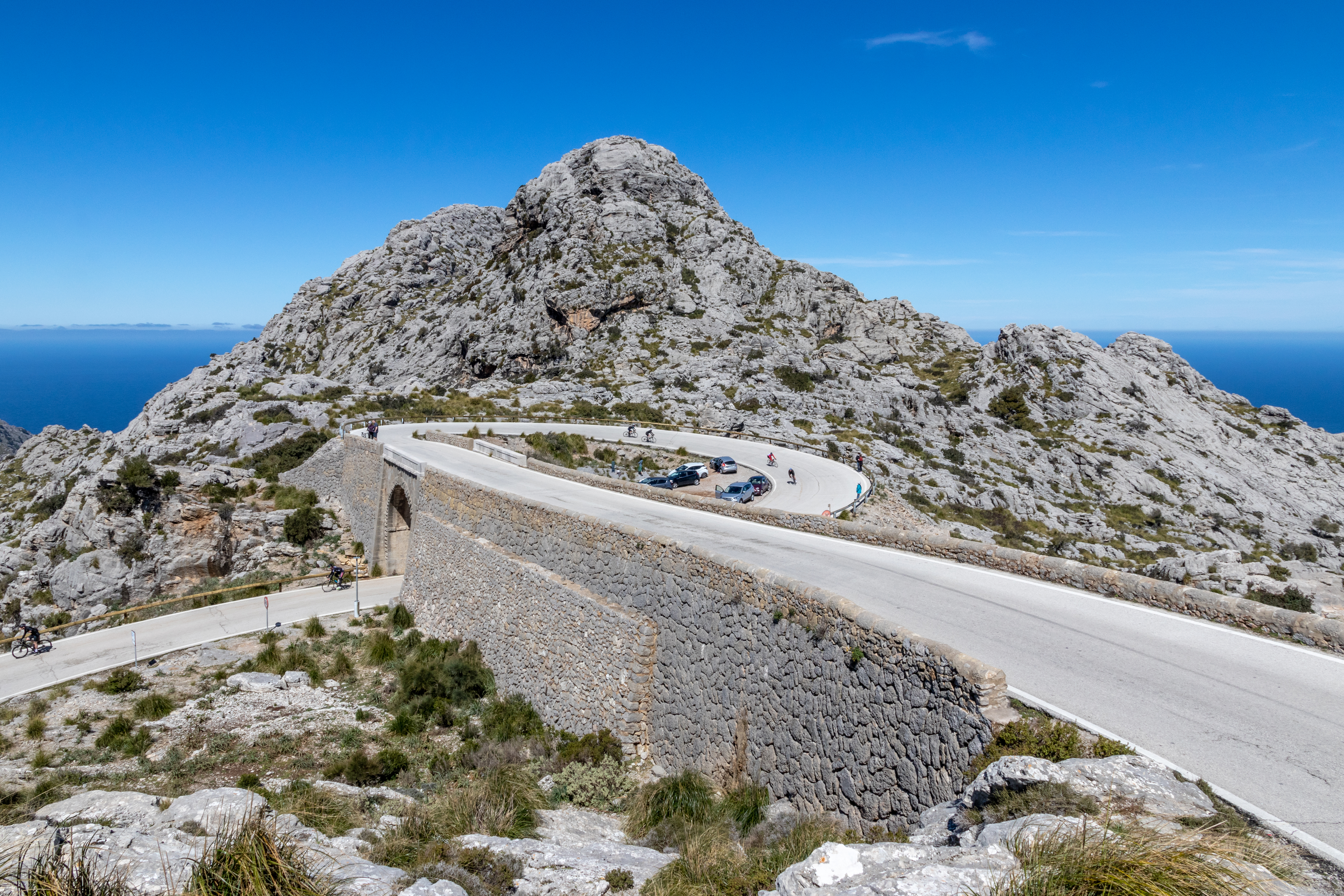 Road to Sa Calobra, known as the tie knot, Serra de Tramuntana, Mallorca, Spain